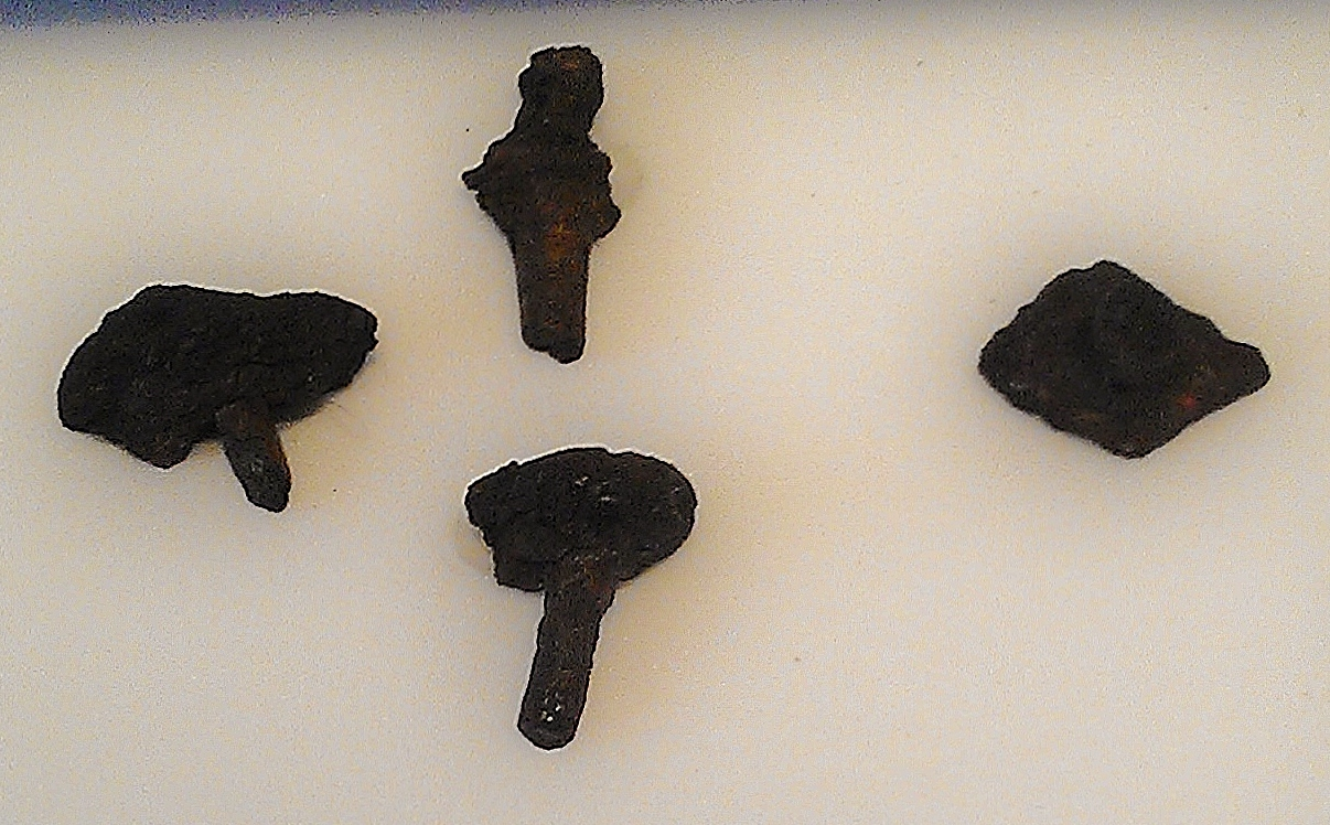 Four Anglo-Saxon rivets found at the Snape ship burial and now in Aldeburgh Moot Hall Museum. Dated to circa 550 CE.